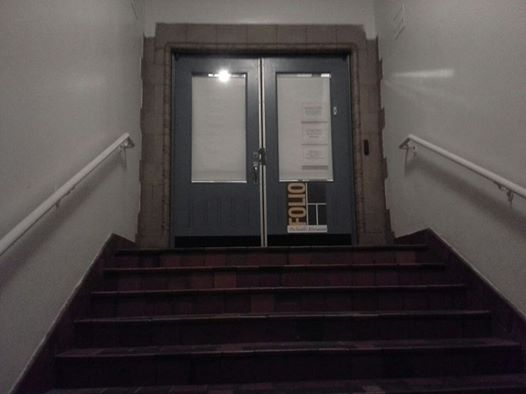 The main entrance to "Folio: The Seattle Athemaeum", a subscription library in downtown Seattle